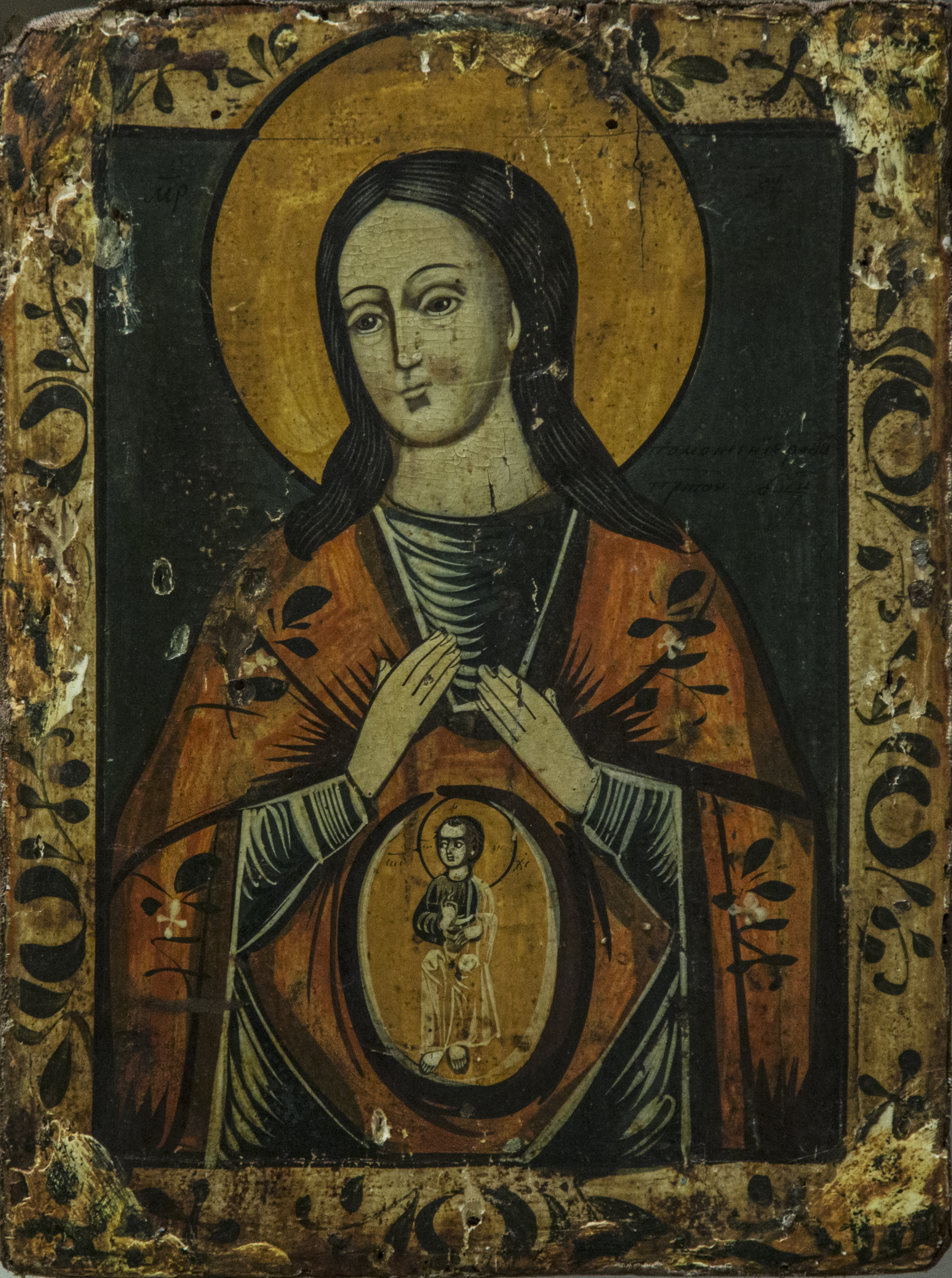 The icon of The Holy Virgin Helping to Give Birth to Babies. Sivershchyna, the end of the XVIII c. Radomysl Castle, Ukraine